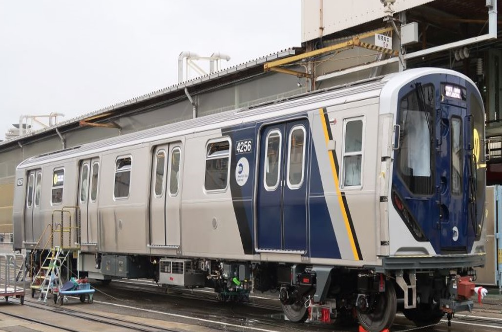 The Metropolitan Transportation Authority (MTA) released the first look at its newest state-of-the-art subway cars in production, the R211 class, which is planned for service on the subway system’s lettered routes and the Staten Island Railway. The MTA Board approved the $1.4 billion contract award of 535 R211 cars to Kawasaki Rail Car Inc. in 2018 and the delivery of the first test cars is scheduled for later this year.